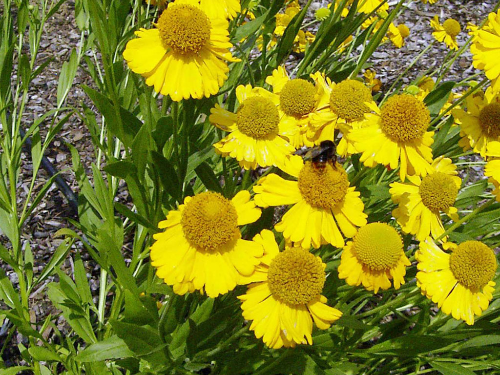 Flowers of Helenium autumnale 'Pumilum Magnificum'